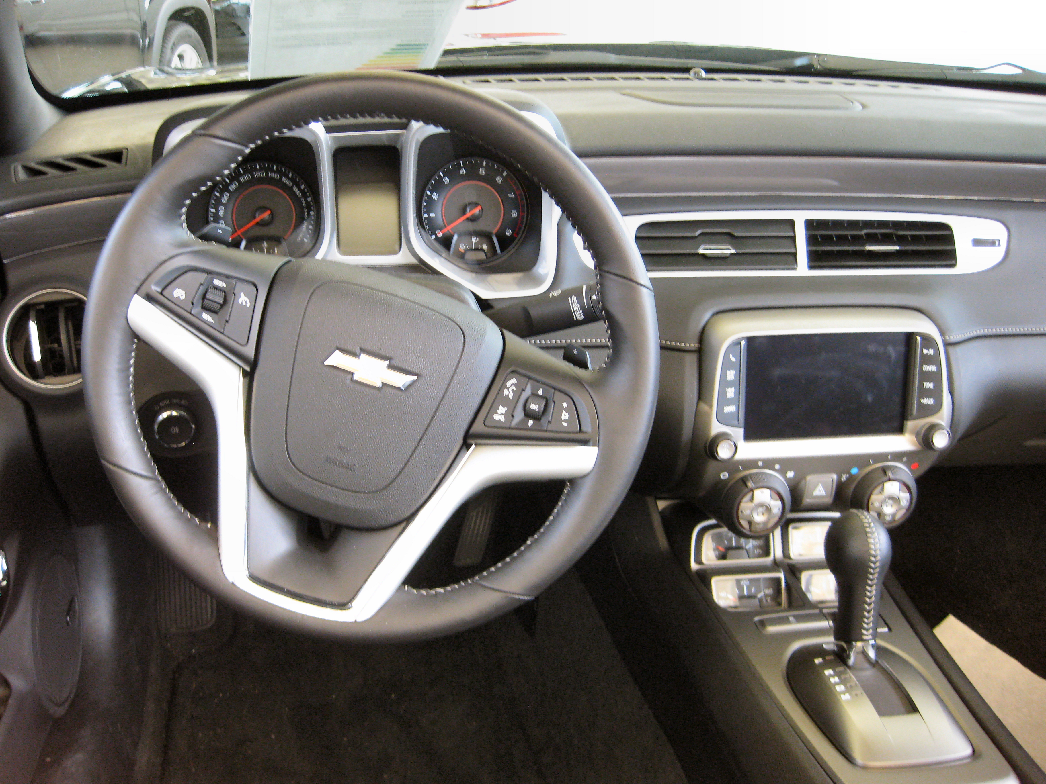 Chevrolet Camaro Convertible cockpit